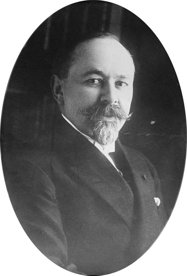 Croat Dalmatian politician Ante Trumbić.